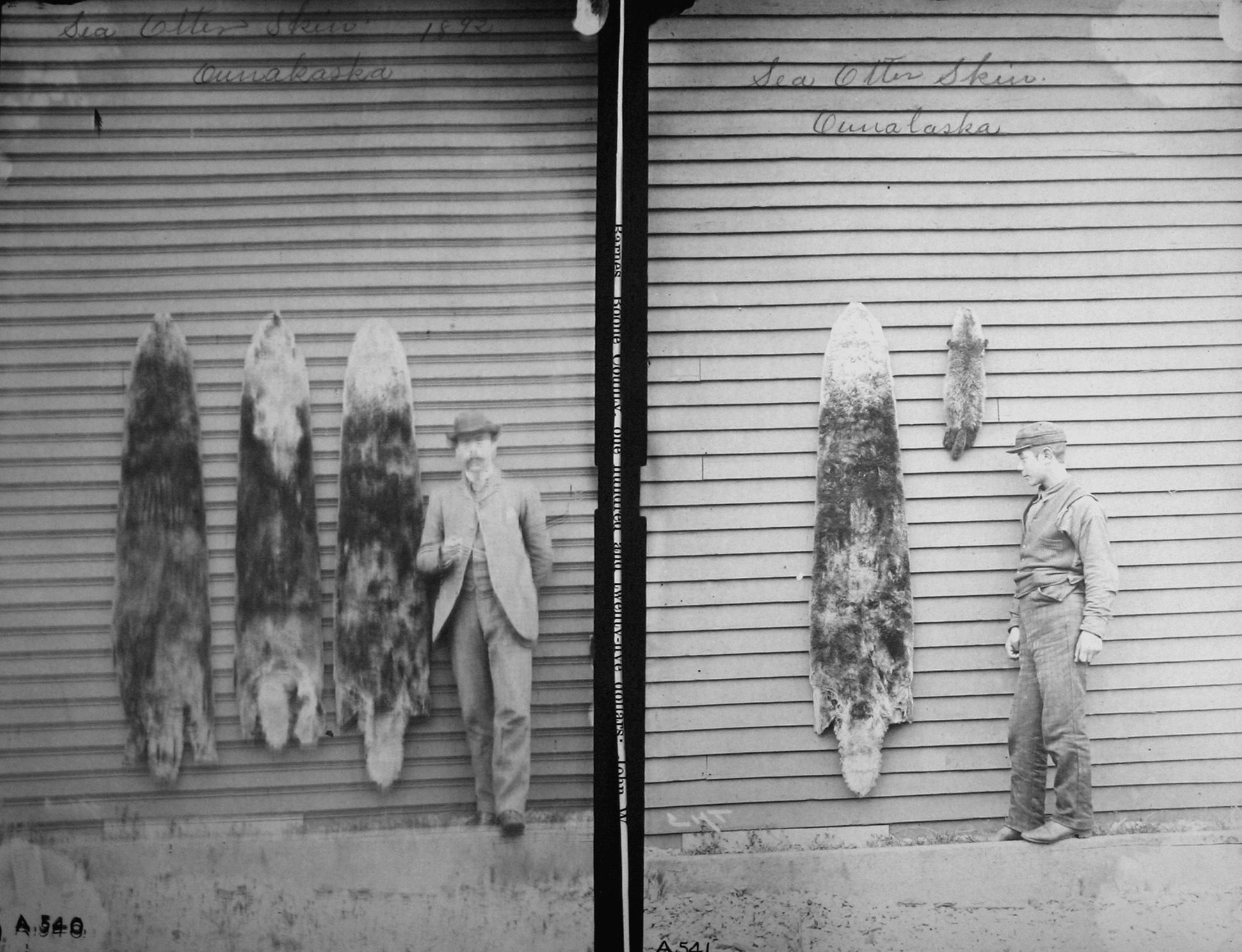 Skins of sea otters. Unalaska, Alaska. Gulf of Maine Cod Project, NOAA National Marine Sanctuaries; Courtesy of National Archives